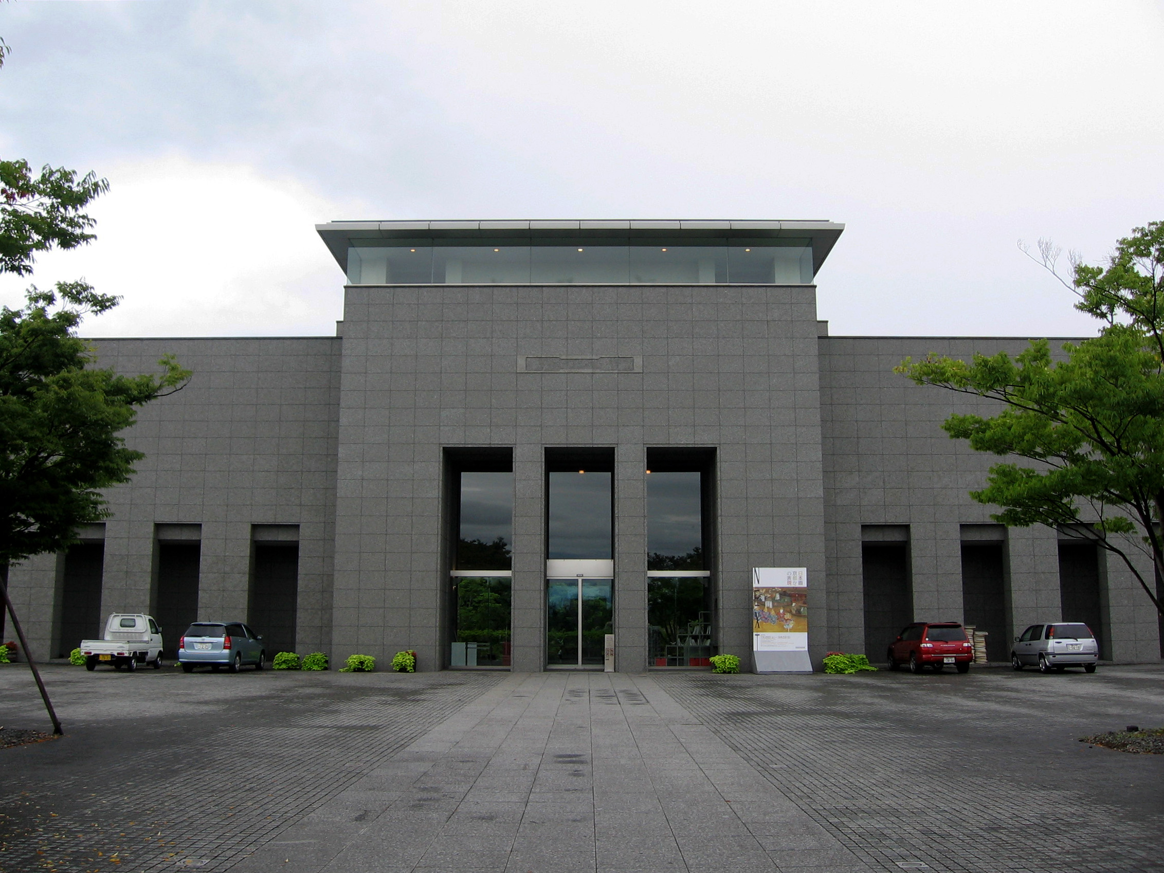 Tonami Art Museum